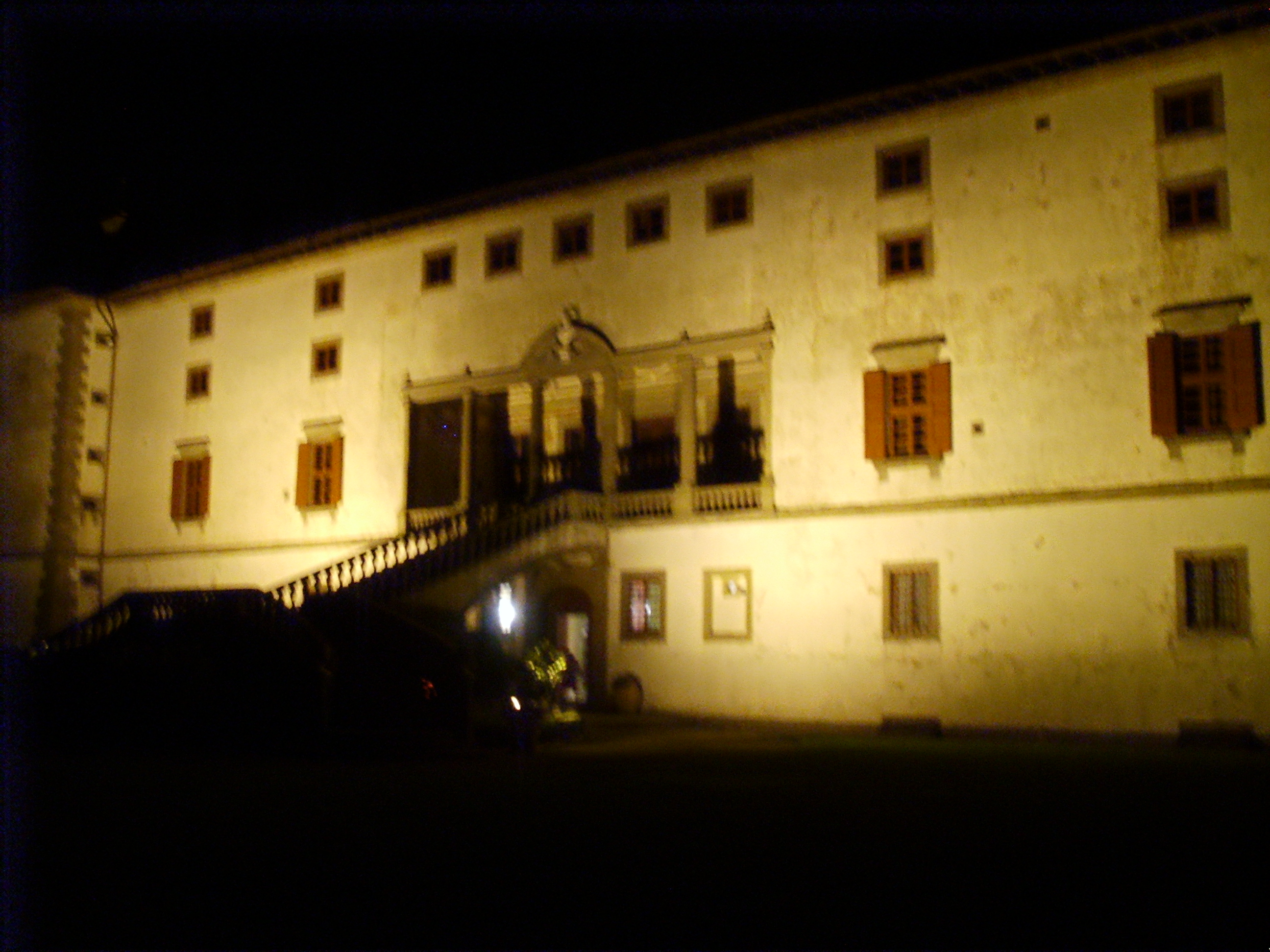 Villa medicea di Artimino by night Province of Prato, Tuscany, italy